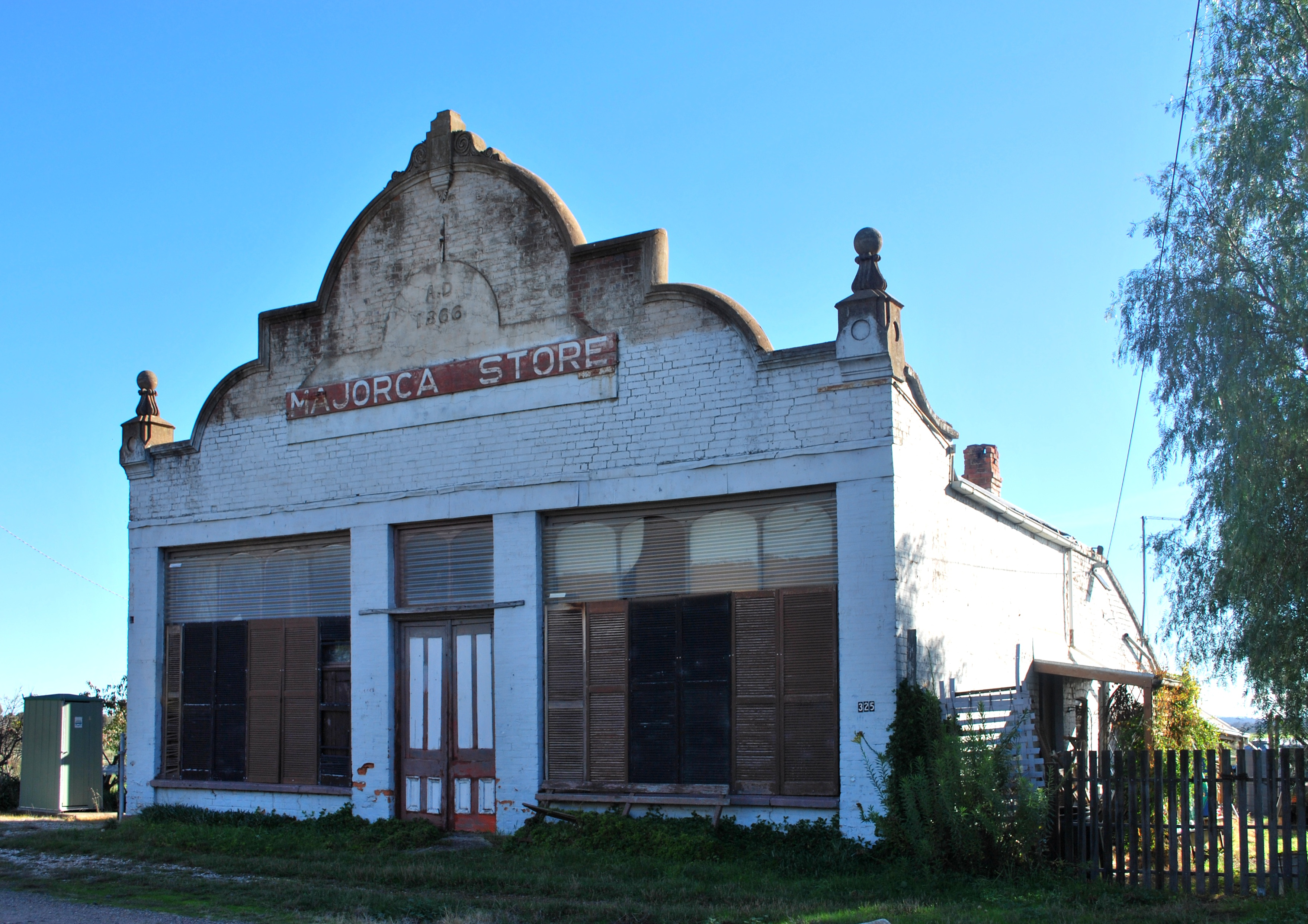 Former general store at Majorca, Victoria